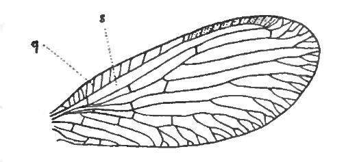 wing of Sisyra fuscata, Sisyridae, Neuroptera